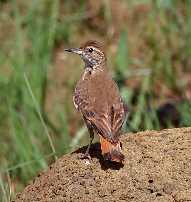 Campo miner at Serra da Canastra National Park - MG - Brasil